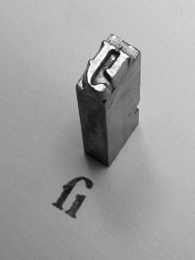 ſ (long s) - i ligature type in 12p Garamond